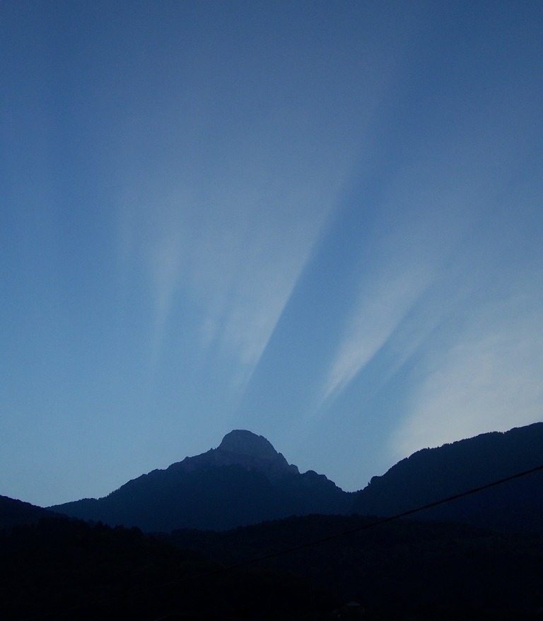 Sunrise .Mount Pizzo Badile, Val Camonica.